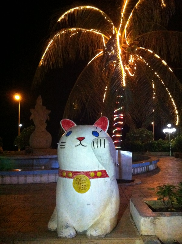 welcome cat in Vietnam